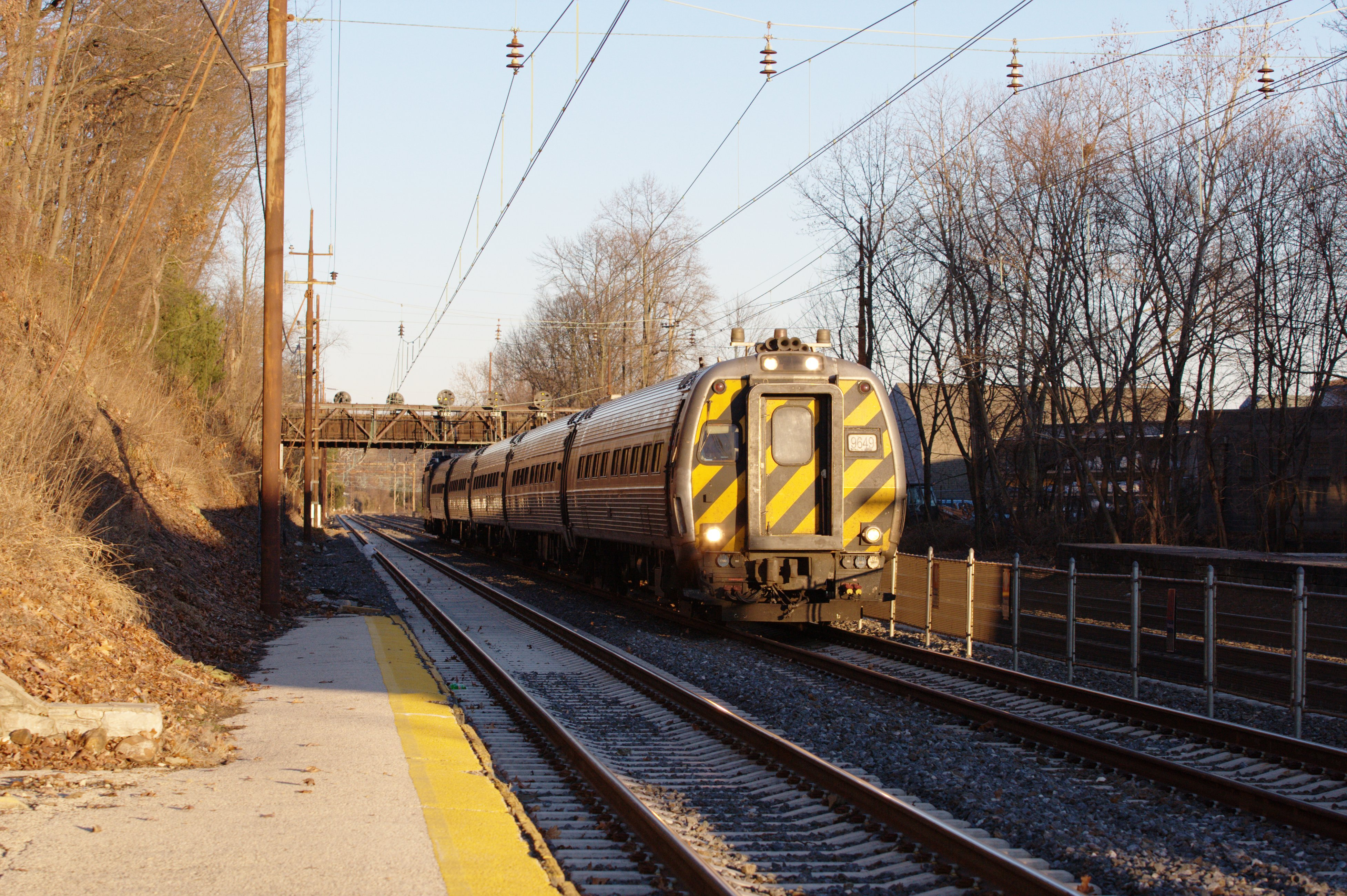 Metroliner cab car 9649 leads a late afternoon Keystone through Devon Station on January 2, 2008.